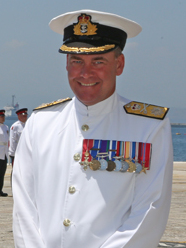 The Chief Minister of Gibraltar's wife Justine Picardo, acting as Reviewing Officer of a 21-gun salute from the Dockyard Tower in Gibraltar with Lt Col Colin Risso and Commander of British Forces in Gibraltar Commodore John Clink